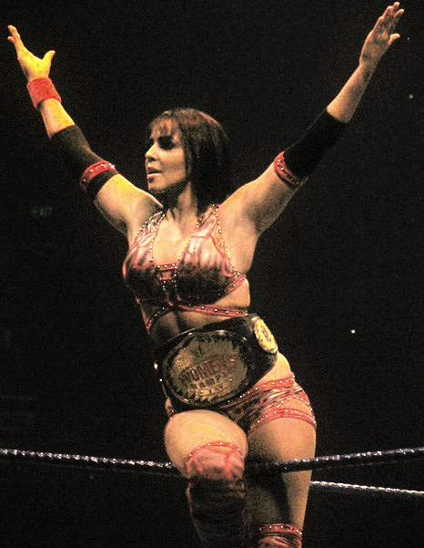 Layla as the WWE Women's Champion during a WWE live event in 2010.